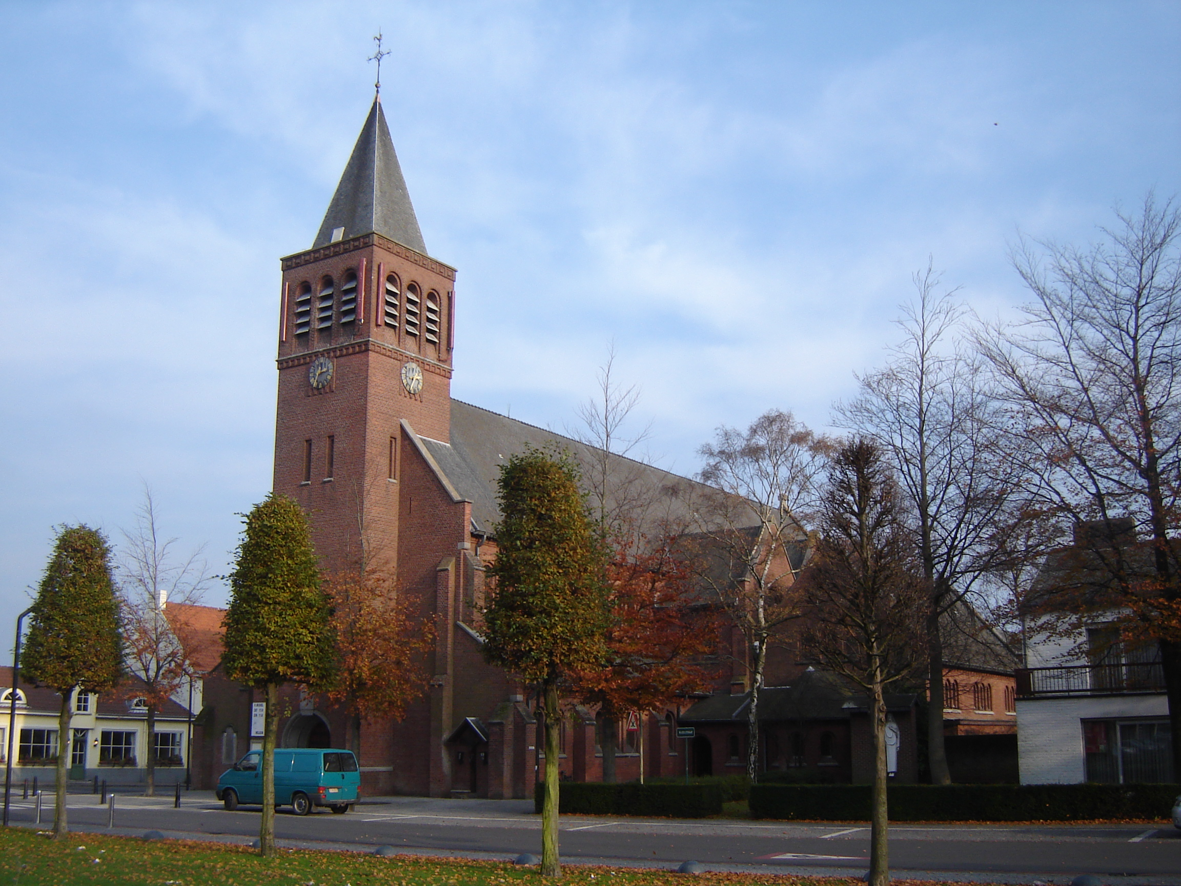 Church of Saint Michael in Sint-Michiels. Sint-Michiels, Brugge, West Flanders, Belgium.